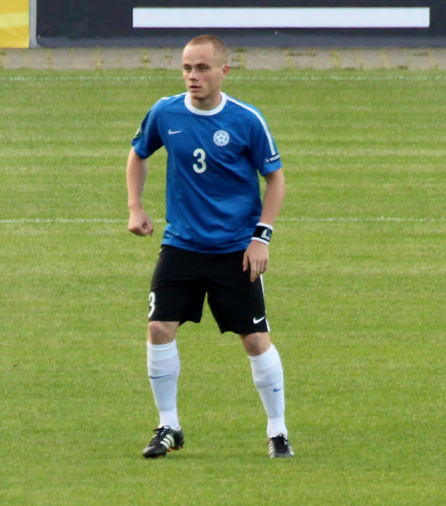 Kevin Ingermann playing football for Estonia against Portugal